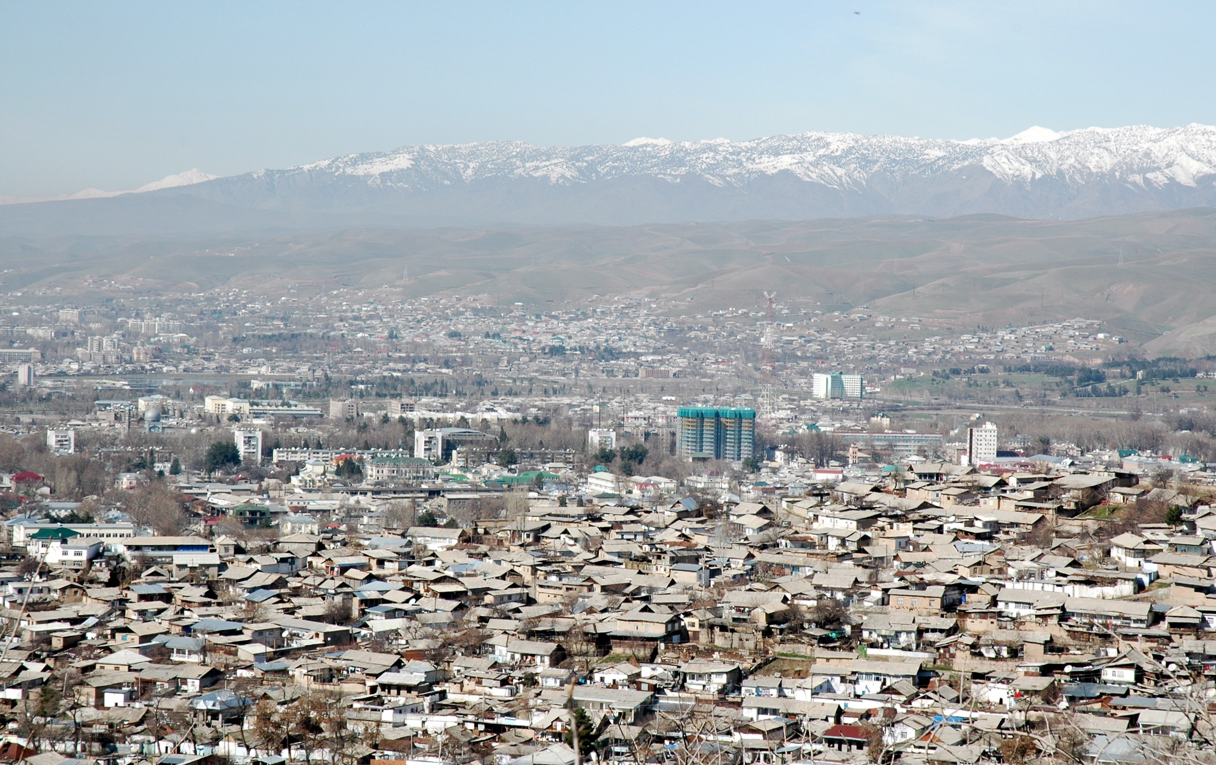 Panoramic view of Dushanbe